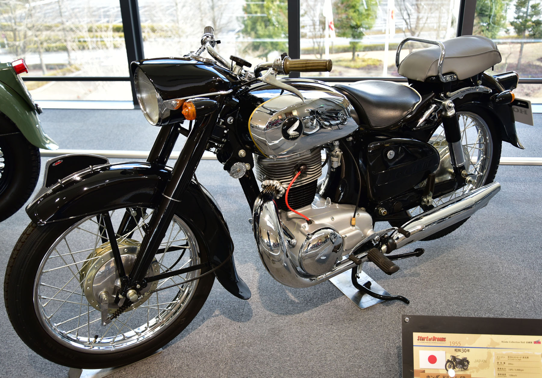 Honda Dream SB (1955)